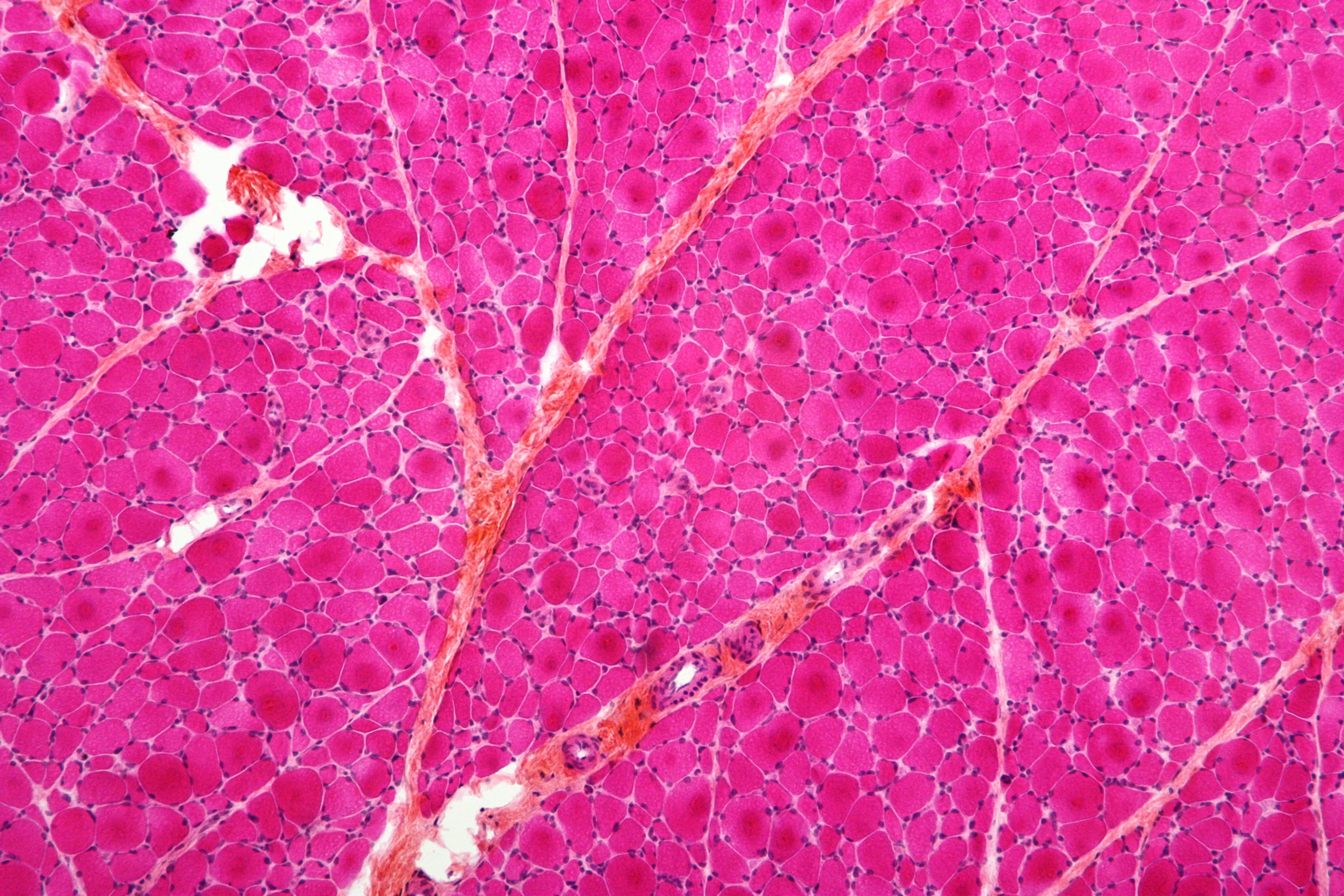 Intermediate magnification micrograph of denervation atrophy of type 2 fibres. HPS stain. Muscle biopsy. There is fibre type group, group atrophy and prominent target fibres. The ATP9.4 stain demonstrates atrophy of type 2 fibres. Related images Intermed. mag. High mag. Very high mag. High mag. SDH. Very high mag. SDH. Intermed. mag. ATPase pH 9.4. High mag. ATPase pH 9.4.